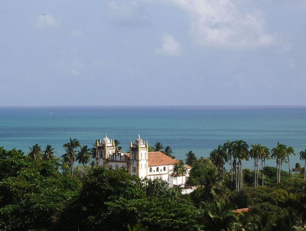 View of Olinda, Brazil